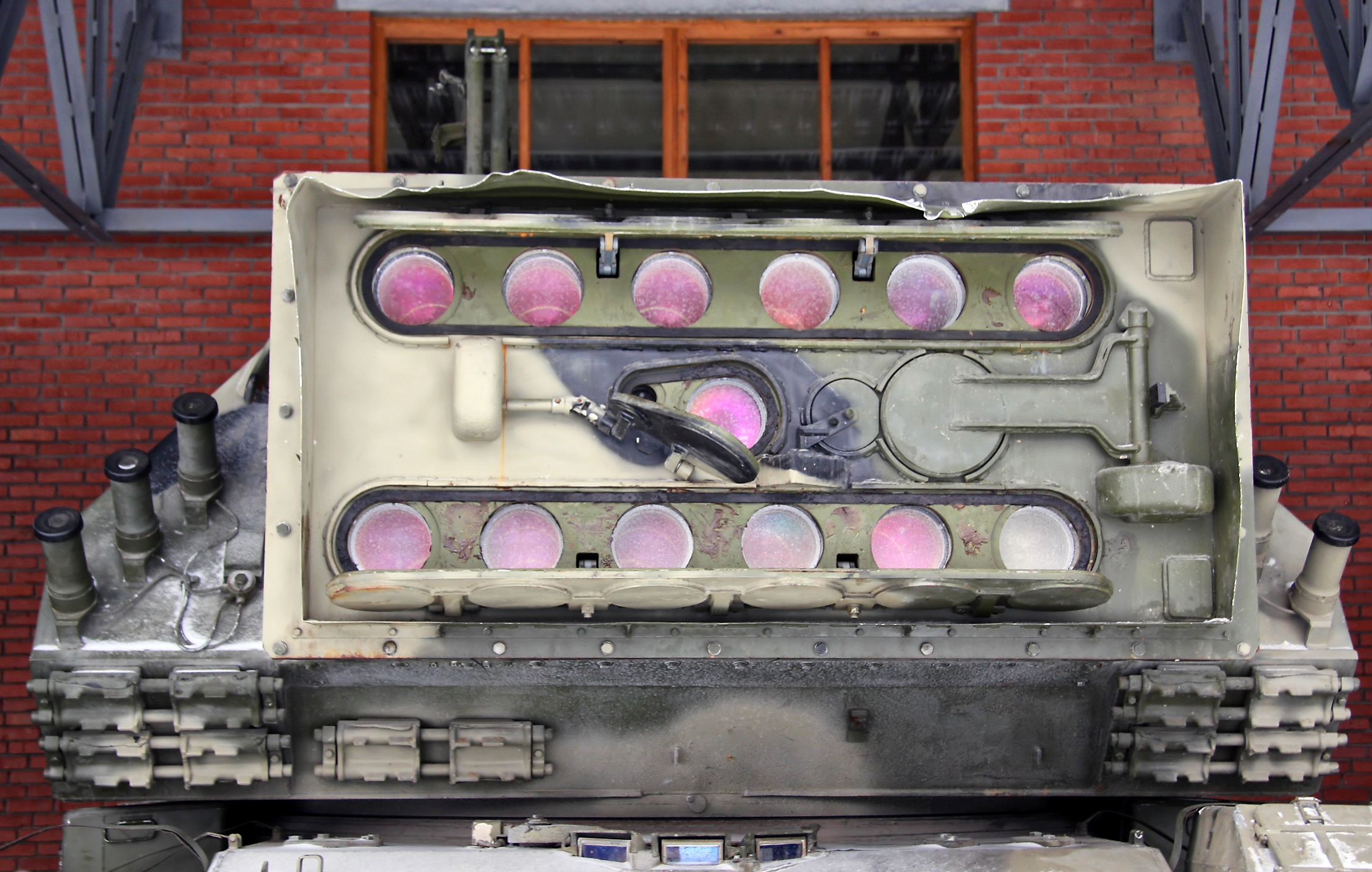 The Soviet self-propelled laser system 1K17 Szhatie on display in a newly opened military technical museum in Noginsk district, Russia.